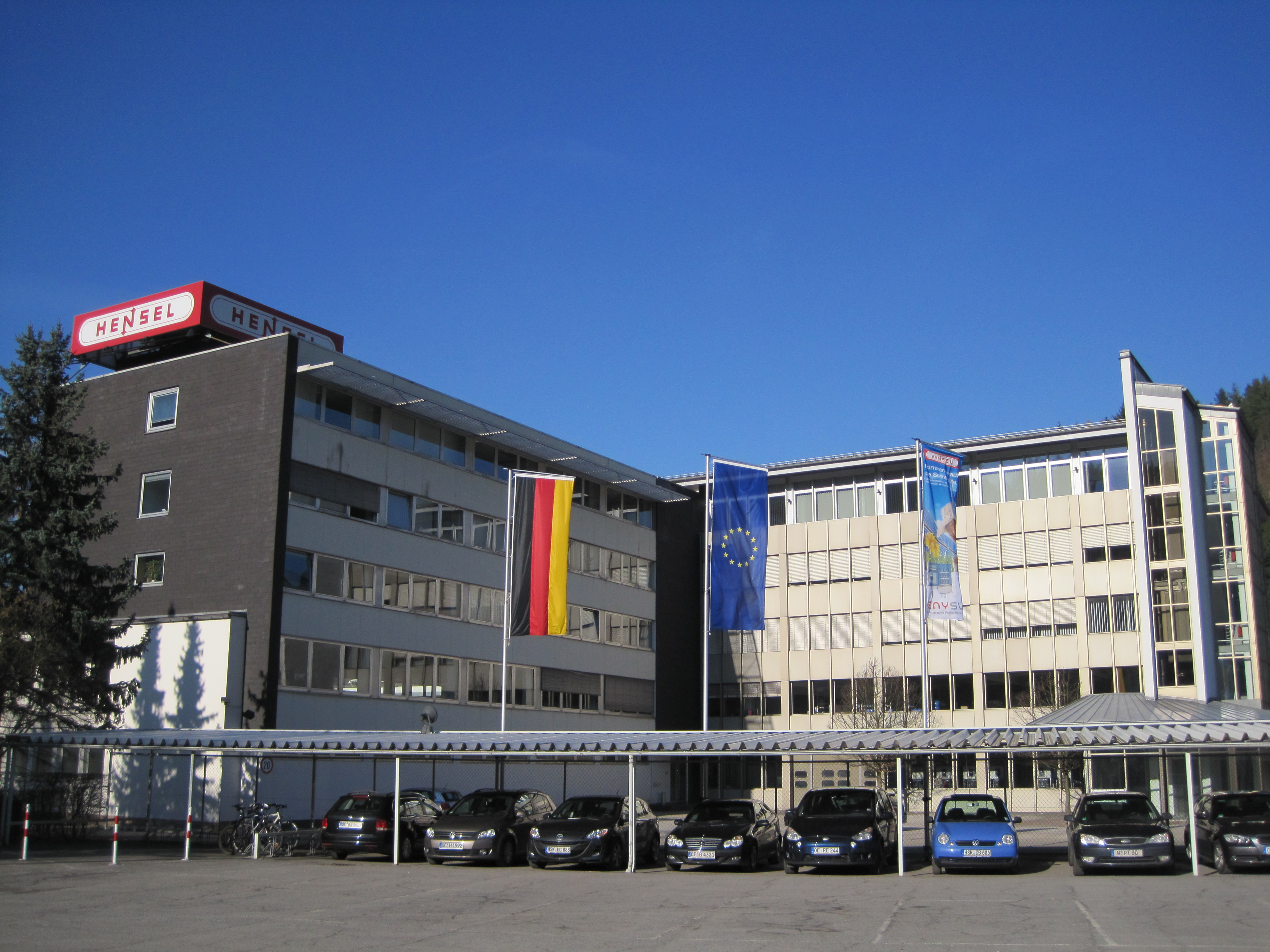 Hensel, Lennestadt, Germany check usage